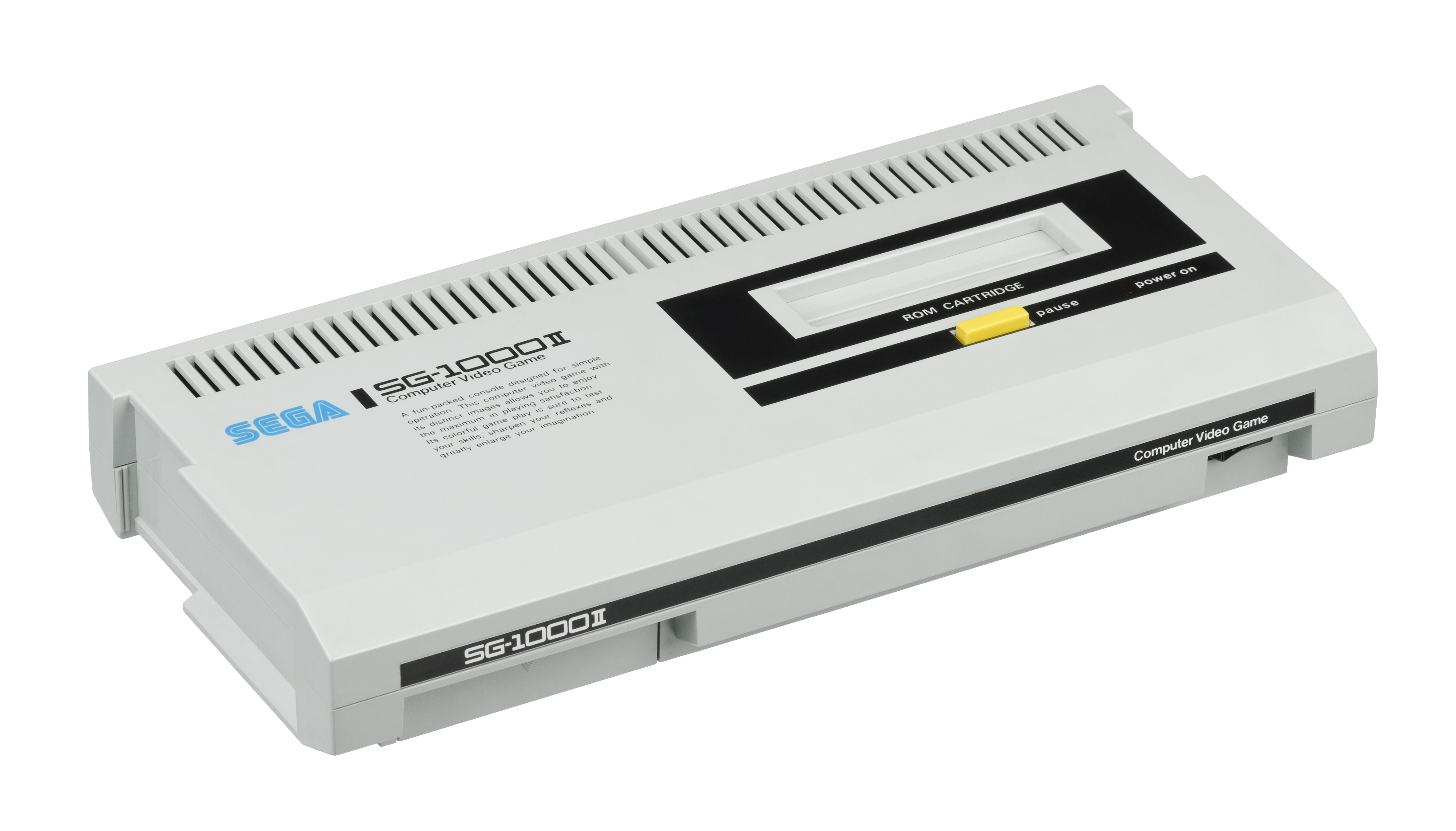 The Sega SG-1000 II (also sometimes called the SG-1000 Mark II), Sega's first video game console that was released in Japan in 1984. This is a revision of the first model, which added removable joypad controllers and moved the expansion port to the front. Based off of the Zilog Z80, the console's graphics were comparable to the ColecoVision. It was replaced by a revised version, the SG-1000 Mark III, only a year later.